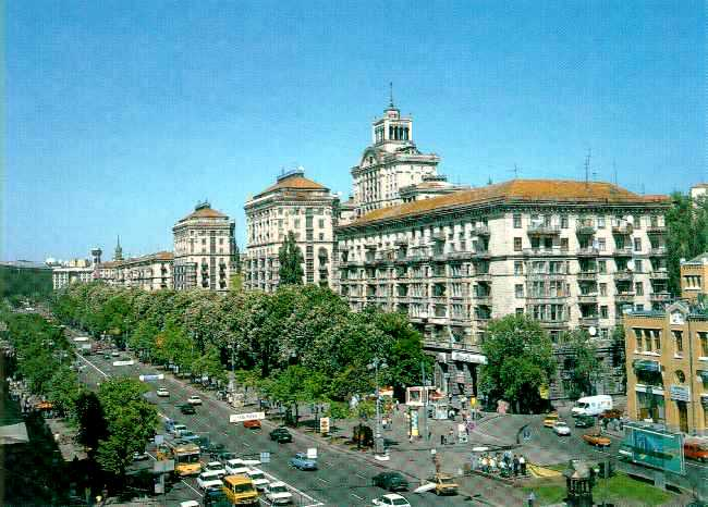 Khreshchatyk street in Kiev, Ukraine